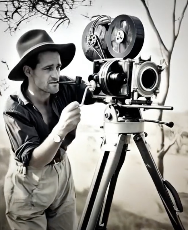 Ernest Brandon-Cremer self taken image 1911 (copyright allowable due to Australian copyright law)